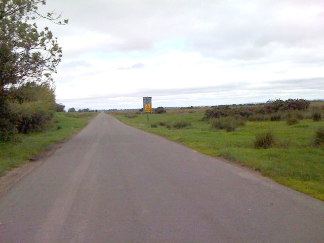 Straight ahead